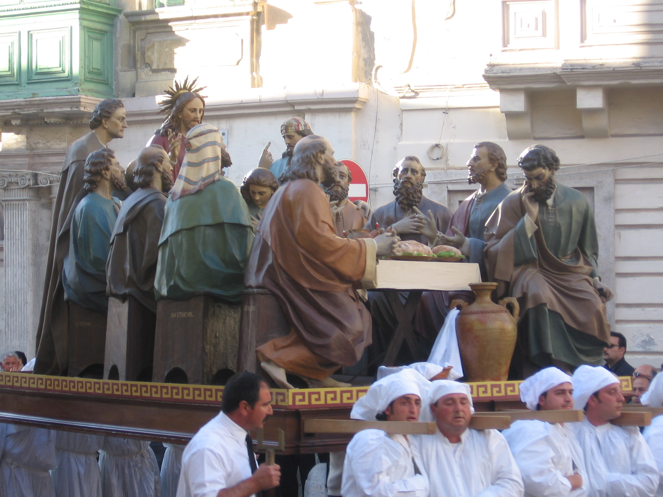 This is a pic of the last super that god had minutes or a day before he died which was painted by the famous artists name michealangelo